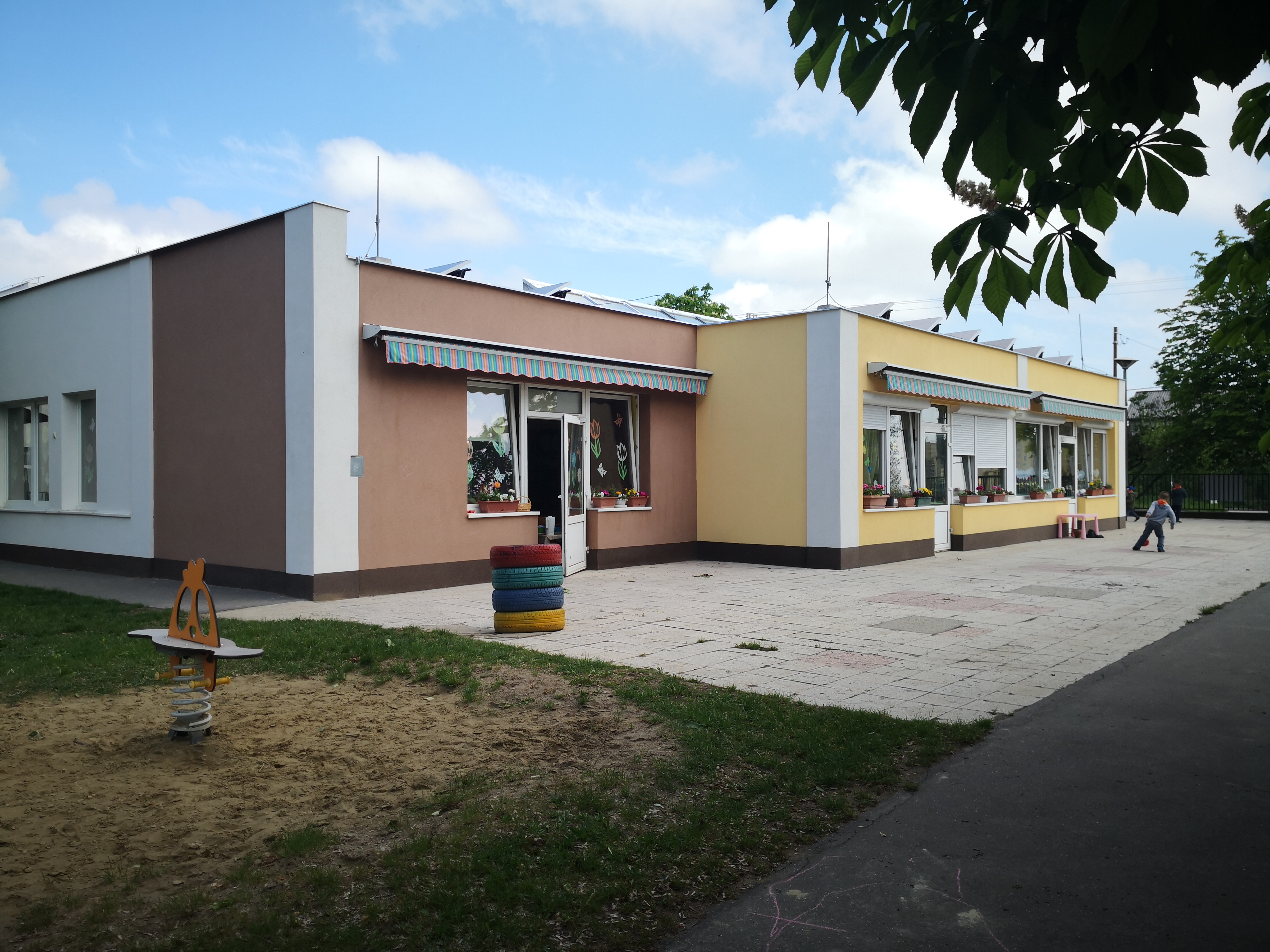 Gesztenyés Óvoda - Kistarcsa